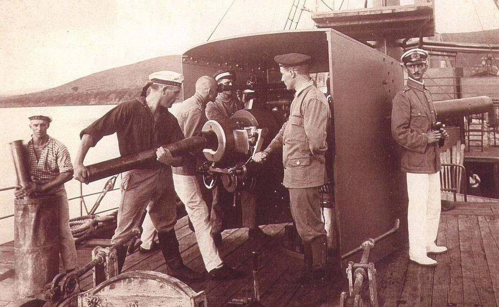 10.5 cm/40 SK L/40 onboad the german SS Goetzen in 1915 or 1916 in the Bay of Kigoma. This was the Number 6 gun salvaged from the cruiser SMS Königsberg. Note the sliding breech mechanism, typical of Krupp guns of this period. The sailor on the far left is holding a leather ammunition transfer bag.